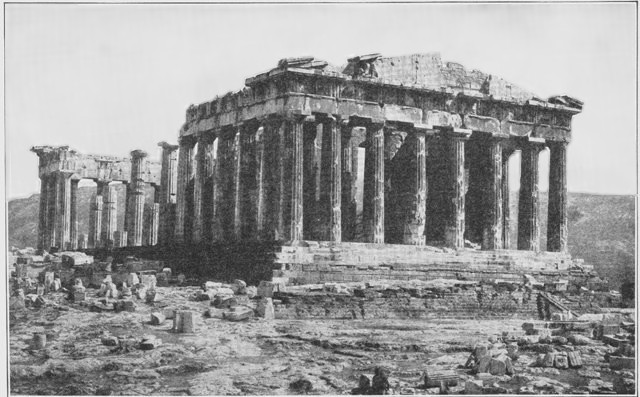 The Parthenon at Athens Altered by User:TroyDavis to remove the moire from the sky.